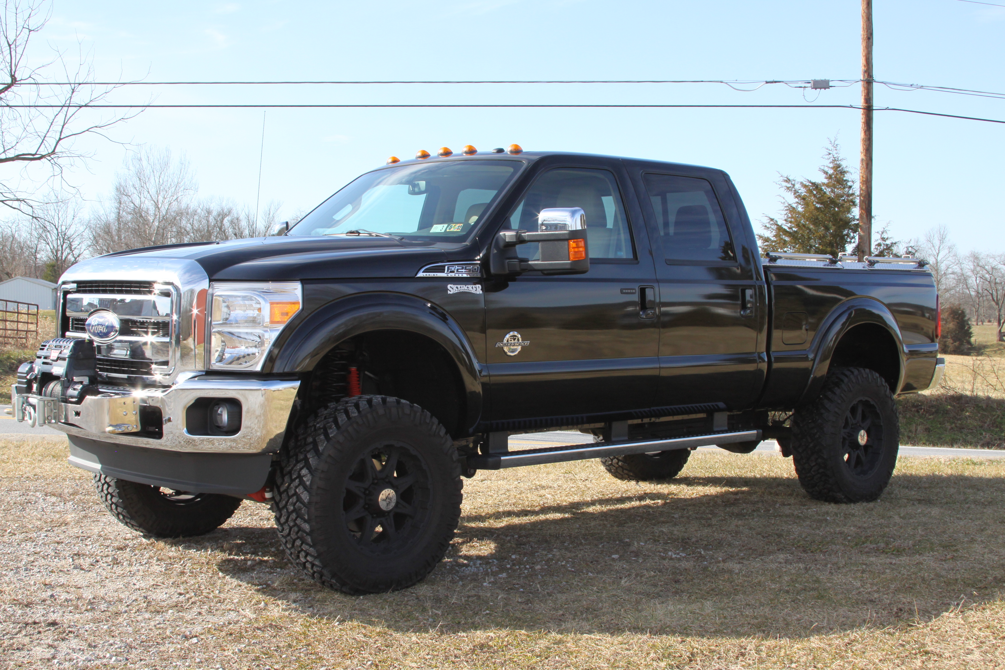 Ford F-250 with aftermarket winch, raised suspension, and off-road tires